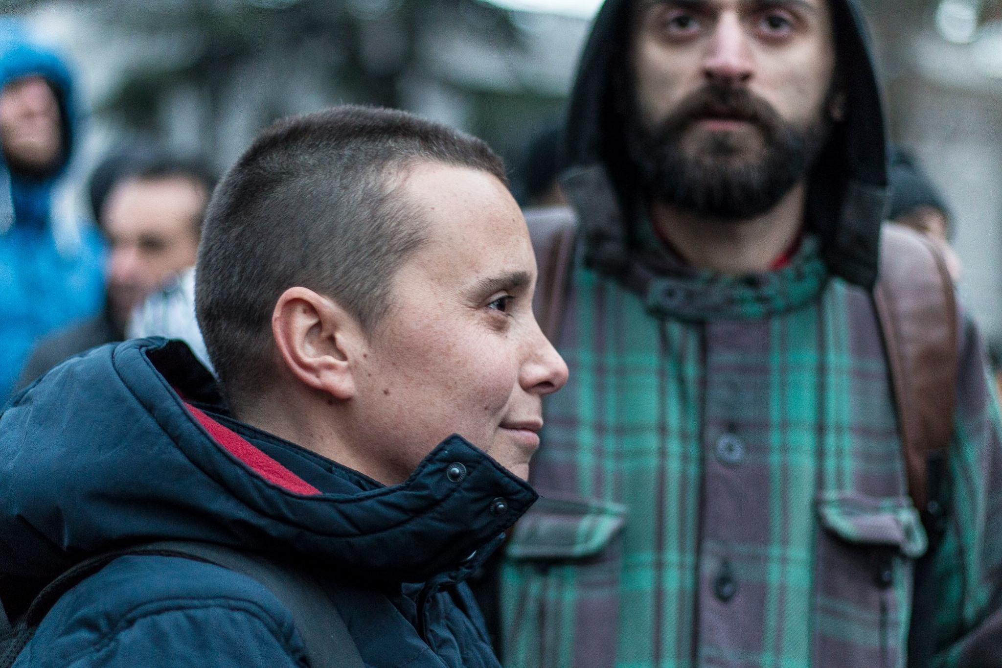 LGBT activist Nino Bolkvadze